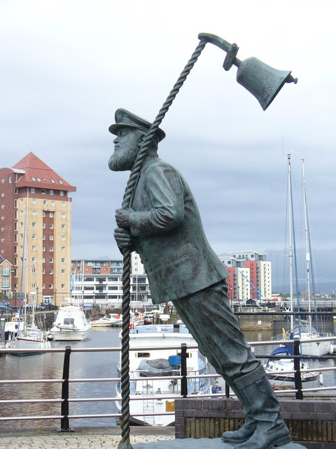 Whimsical Statue, Swansea Marina, near to Swansea/Abertawe, Wales. Statue depicts 'Captain Cat' from Under Milk Wood, by Dylan Thomas. Sculptor Robert J R Thomas, unveiled 1990. This sea captain has a view of Swansea Marina with its modern flats, pubs, museums and pleasure yachts.